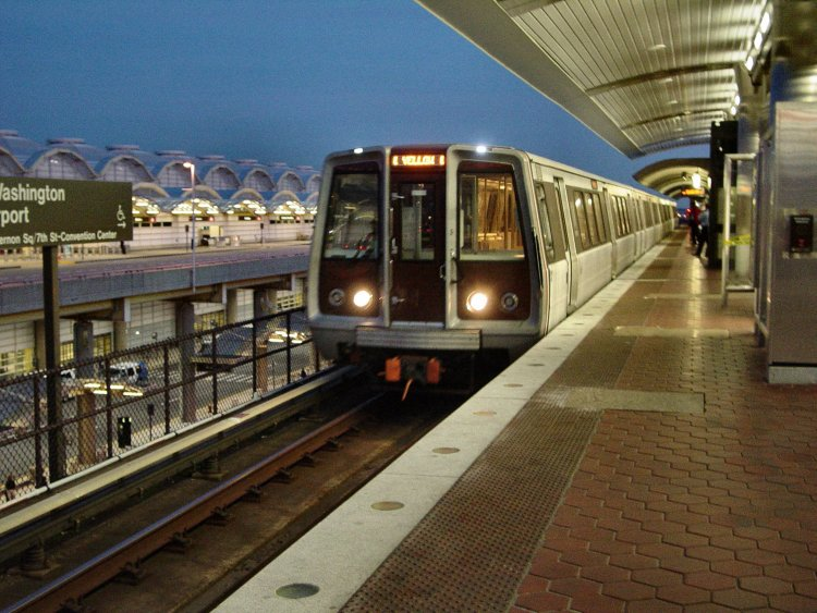 Washington Metro. An inbound train arrives at National Airport station in Arlington, Virginia.